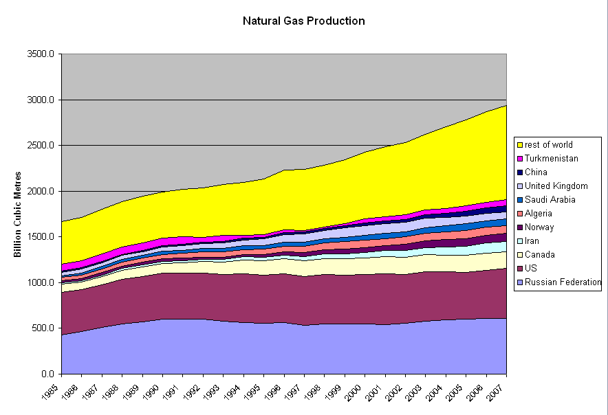 Natural Gas Production comes from the data in the BP Statistical Review of World Energy June 2008 [1]